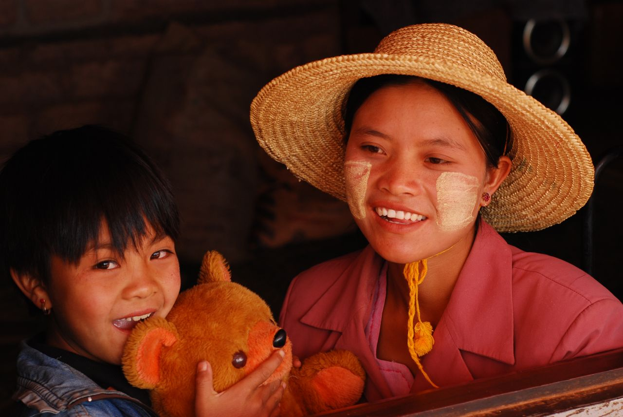 Encounter with a smiling burmese family on our way to the Inle Lake.